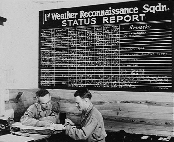 1st Weather Reconnaissance Squadron Briefing.